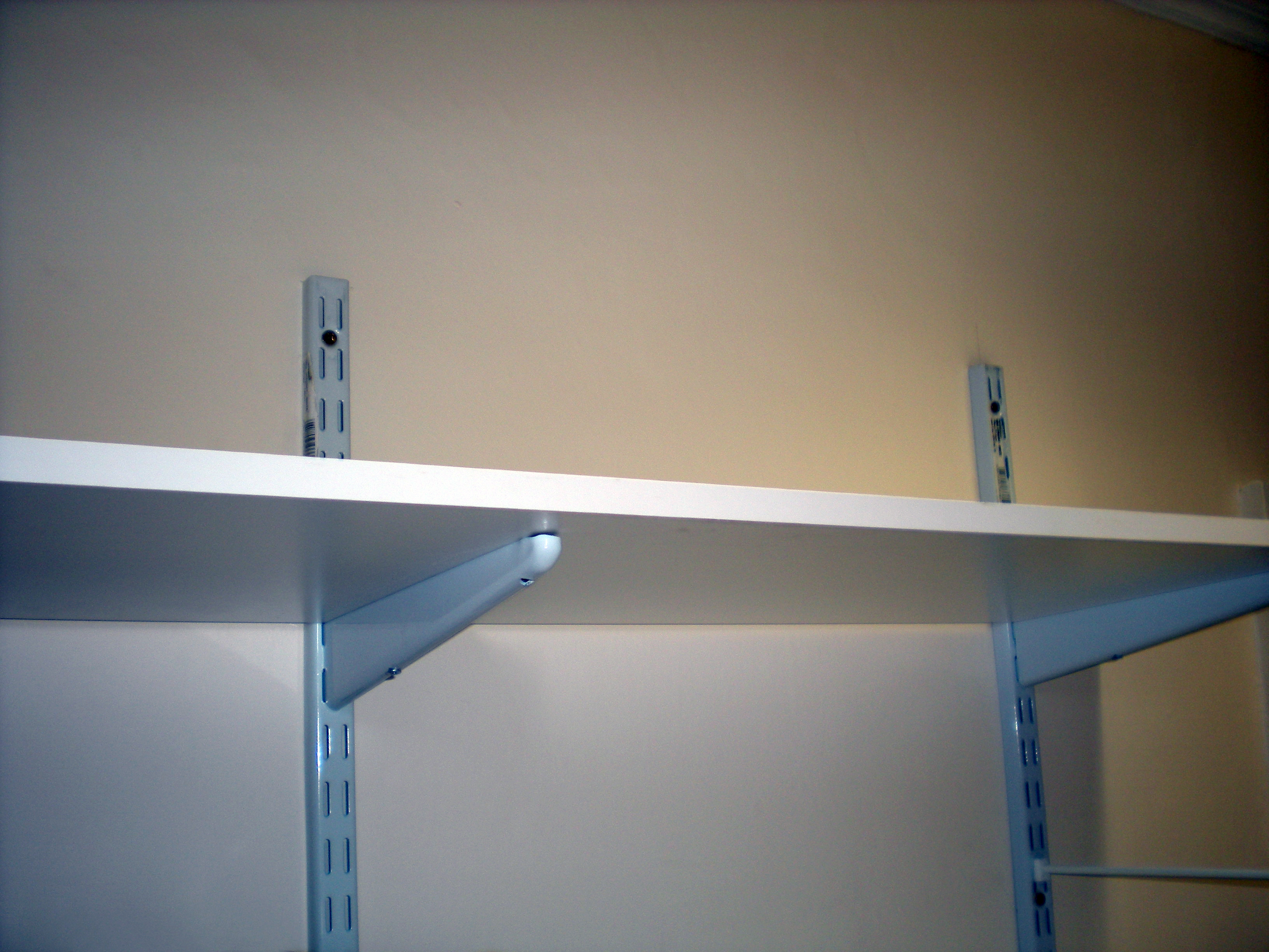 Shelf